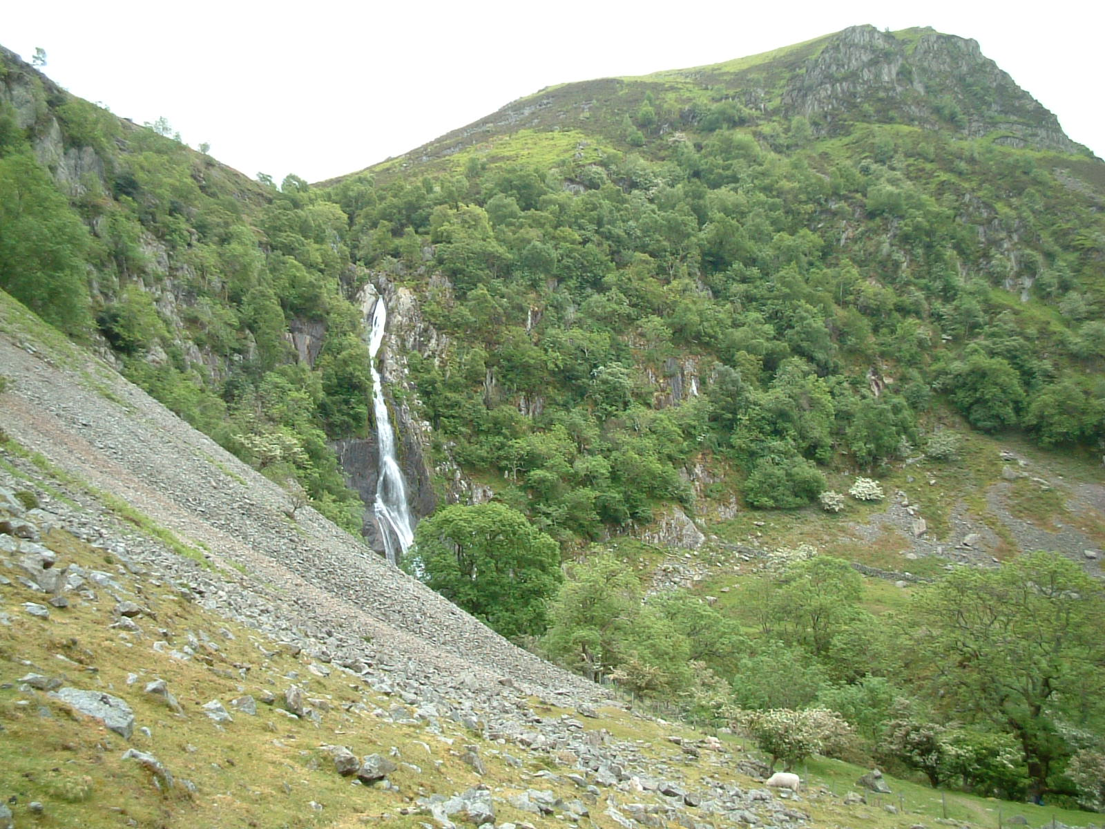 Aber Falls, Gwynedd.